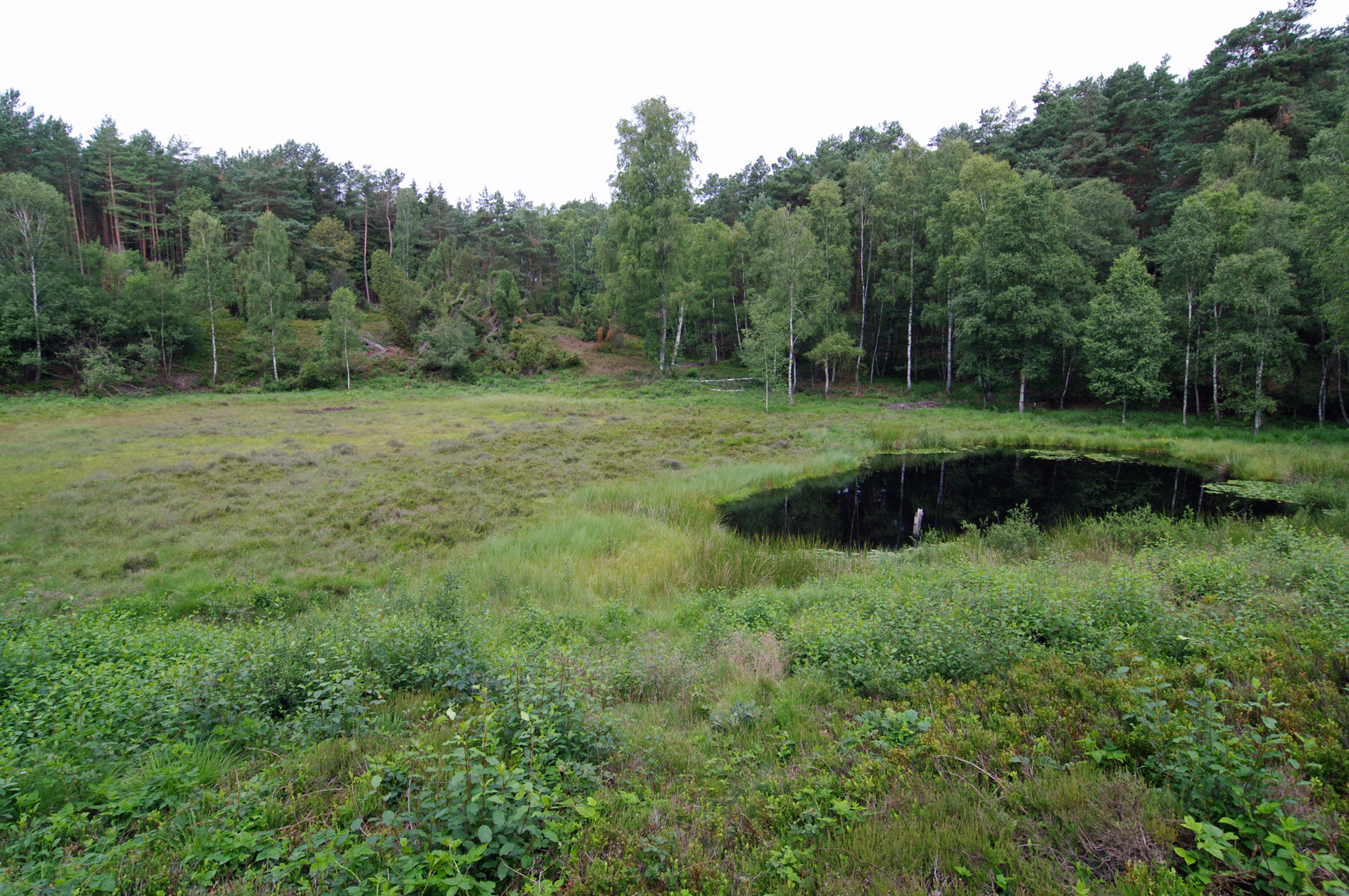 The "Bullenkuhle", a tiny moor lake within a terrain depression (sinkhole) in the landscape "Luneburg Heath" (Lüneburger Heide).